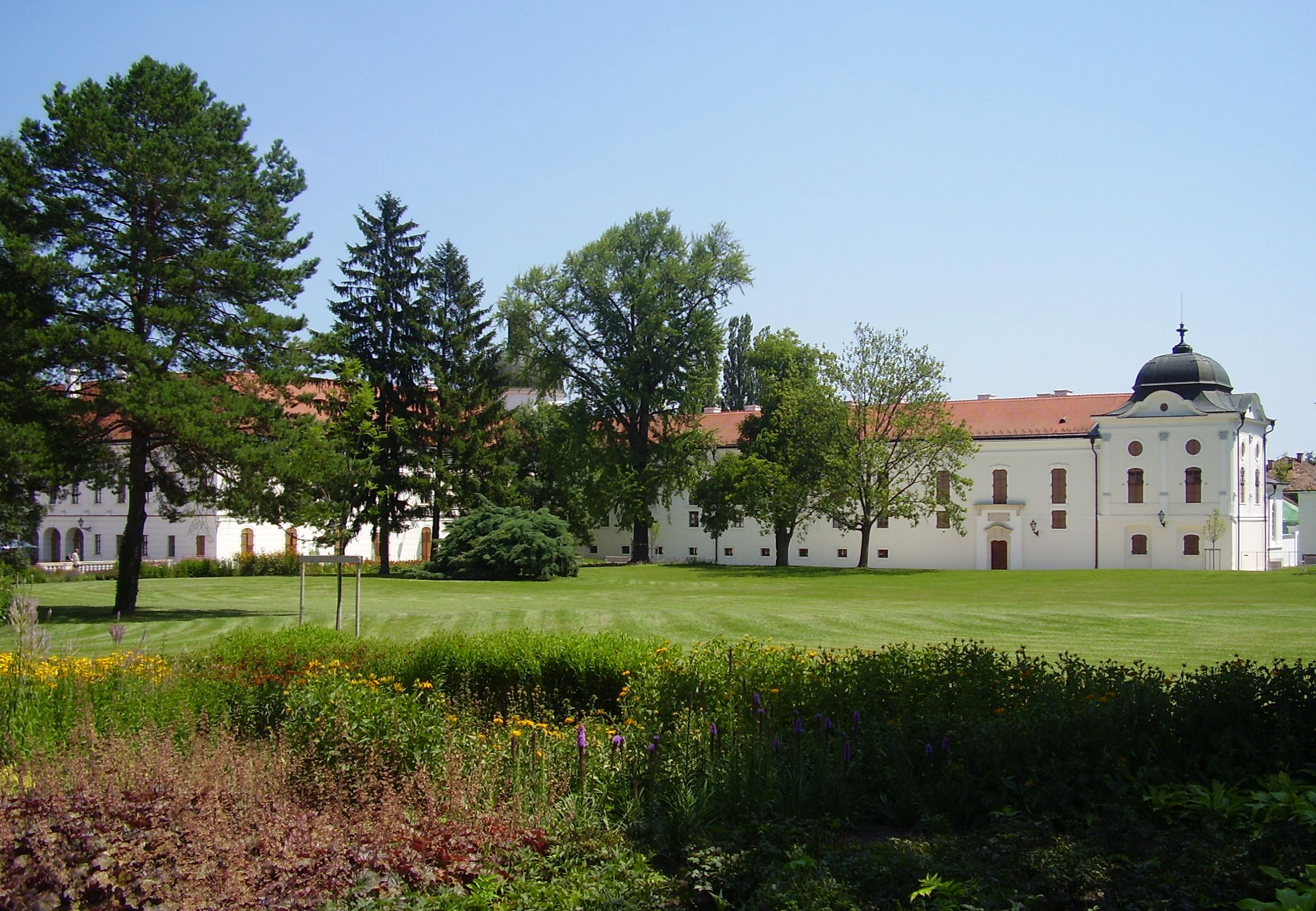 The park of Royal Castle, Gödöllő.